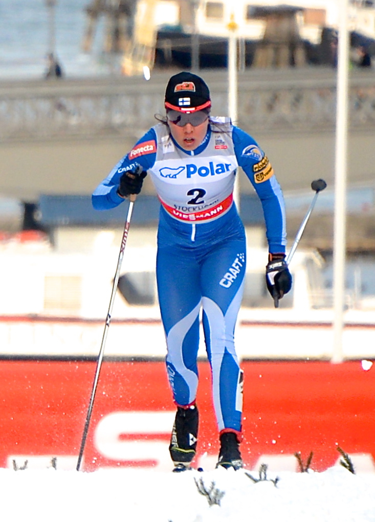 Kerttu Niskanen at Royal Palace Sprint in Stockholm March 20, 2013